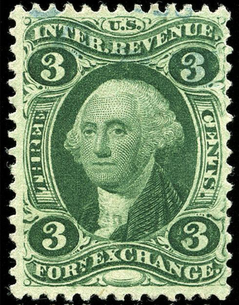 Image of U.S. Revenue stamp, Washington, 3-cents, issue of 1862 (Scotts# R16d)